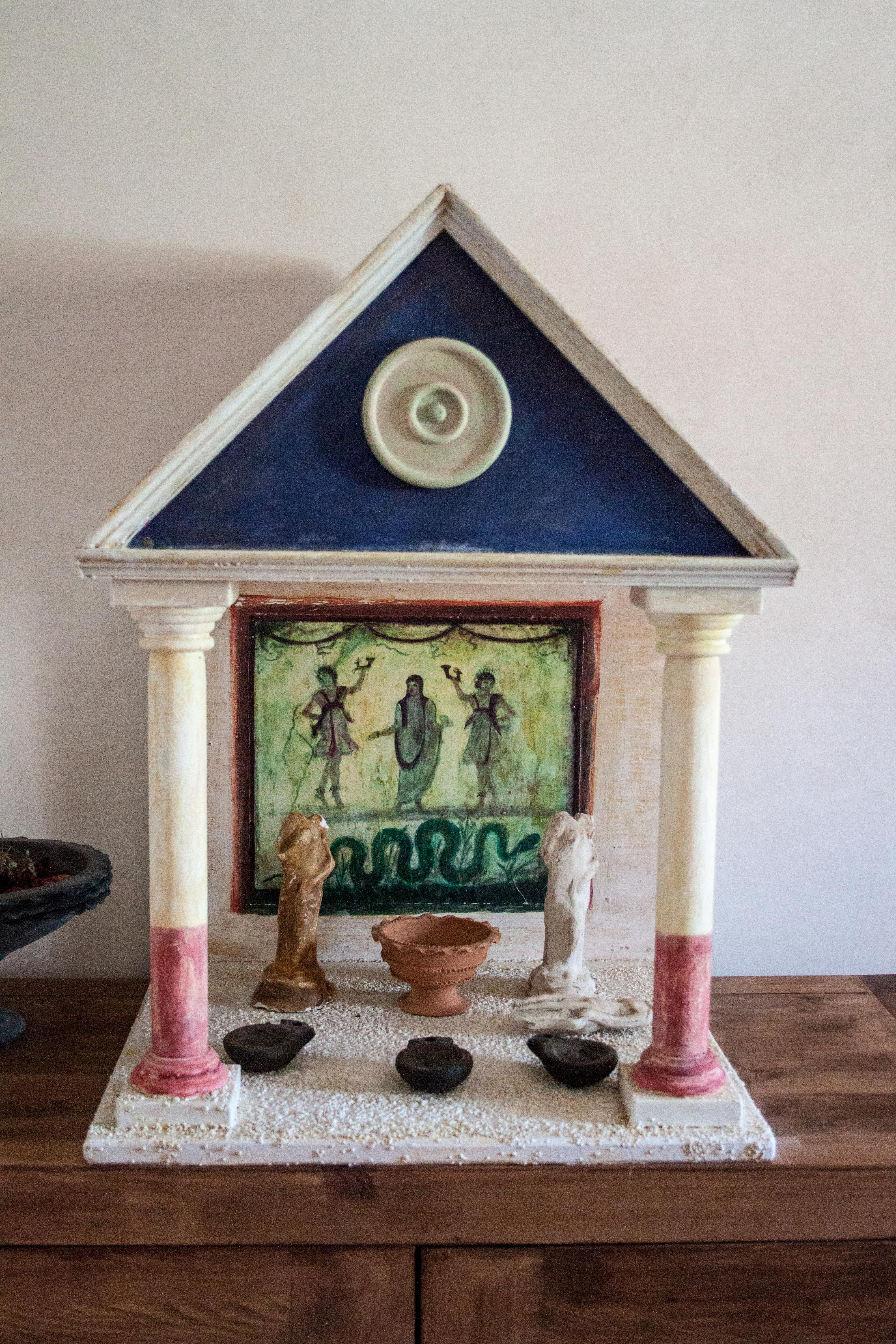 Painting-house - reconstruction of a Roman home altarlabel QS:Len,"Painting-house - reconstruction of a Roman home altar" label QS:Lhu,"Festőház - egy római házioltár rekonstrukciója"